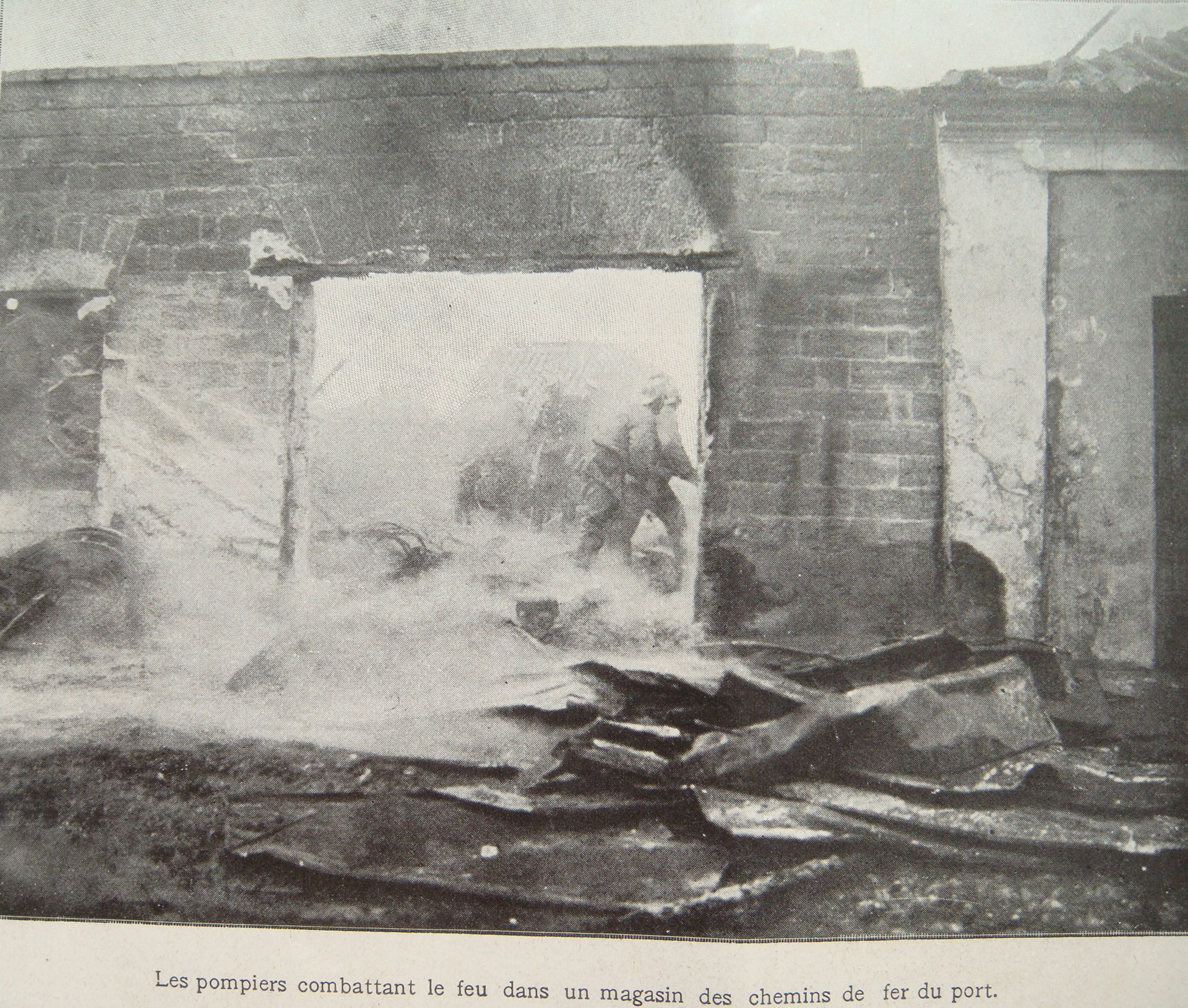 Potemkin mutiny. Odessa port. Firemen at work after fire in the port on June 28th 1905